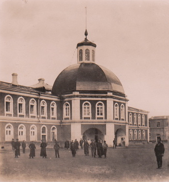 Armenian academy in Echmiadzin